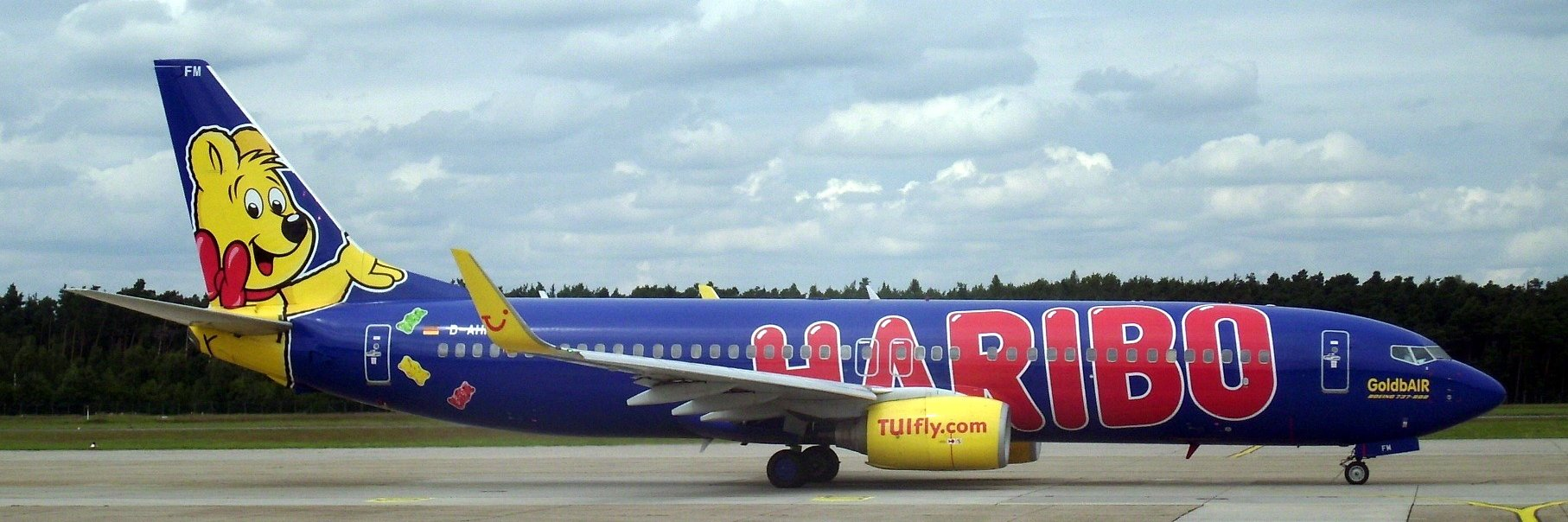 Haribo Tuifly Boeing 737-800 Nuernberg Airport